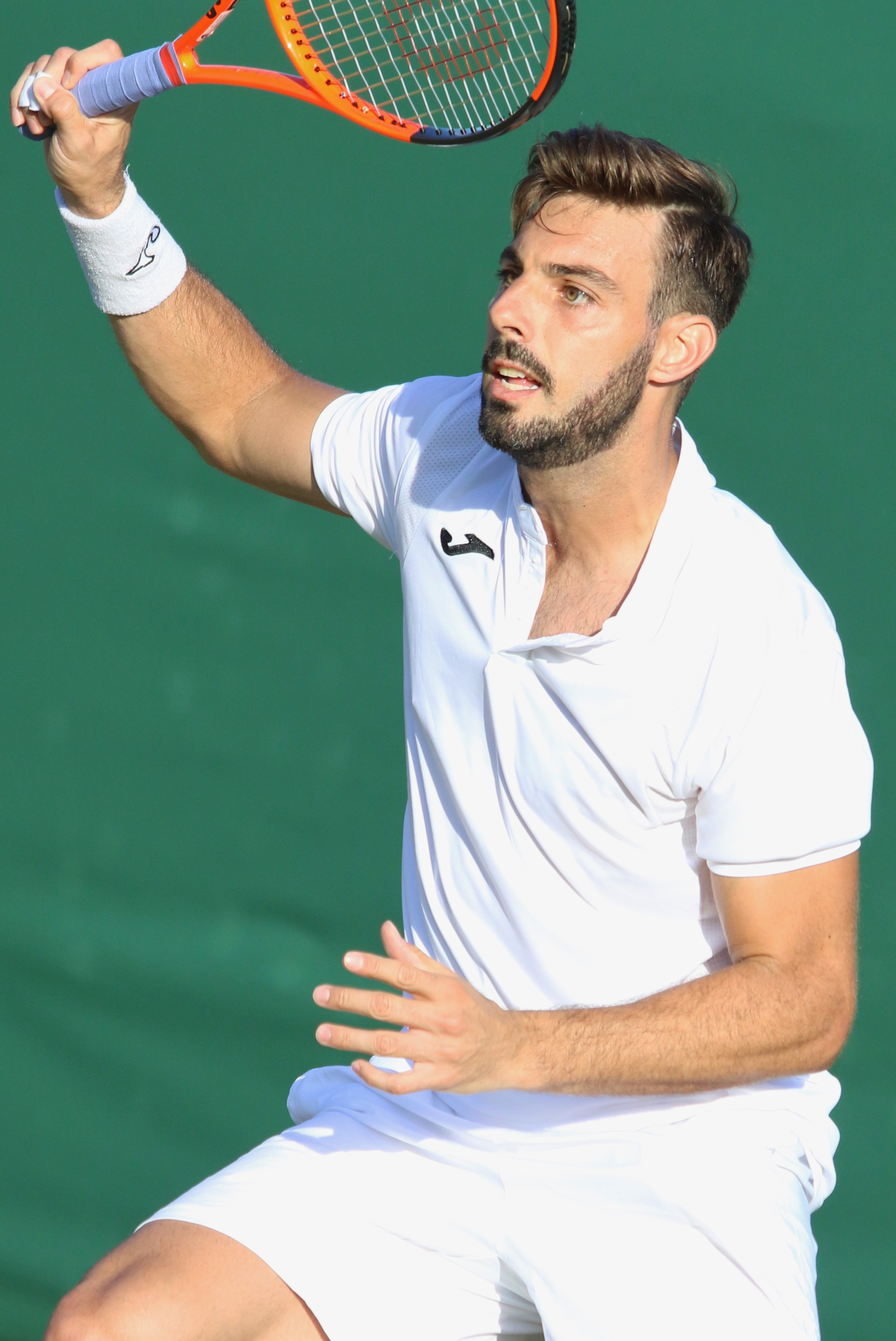 Granollers WM17 (8)